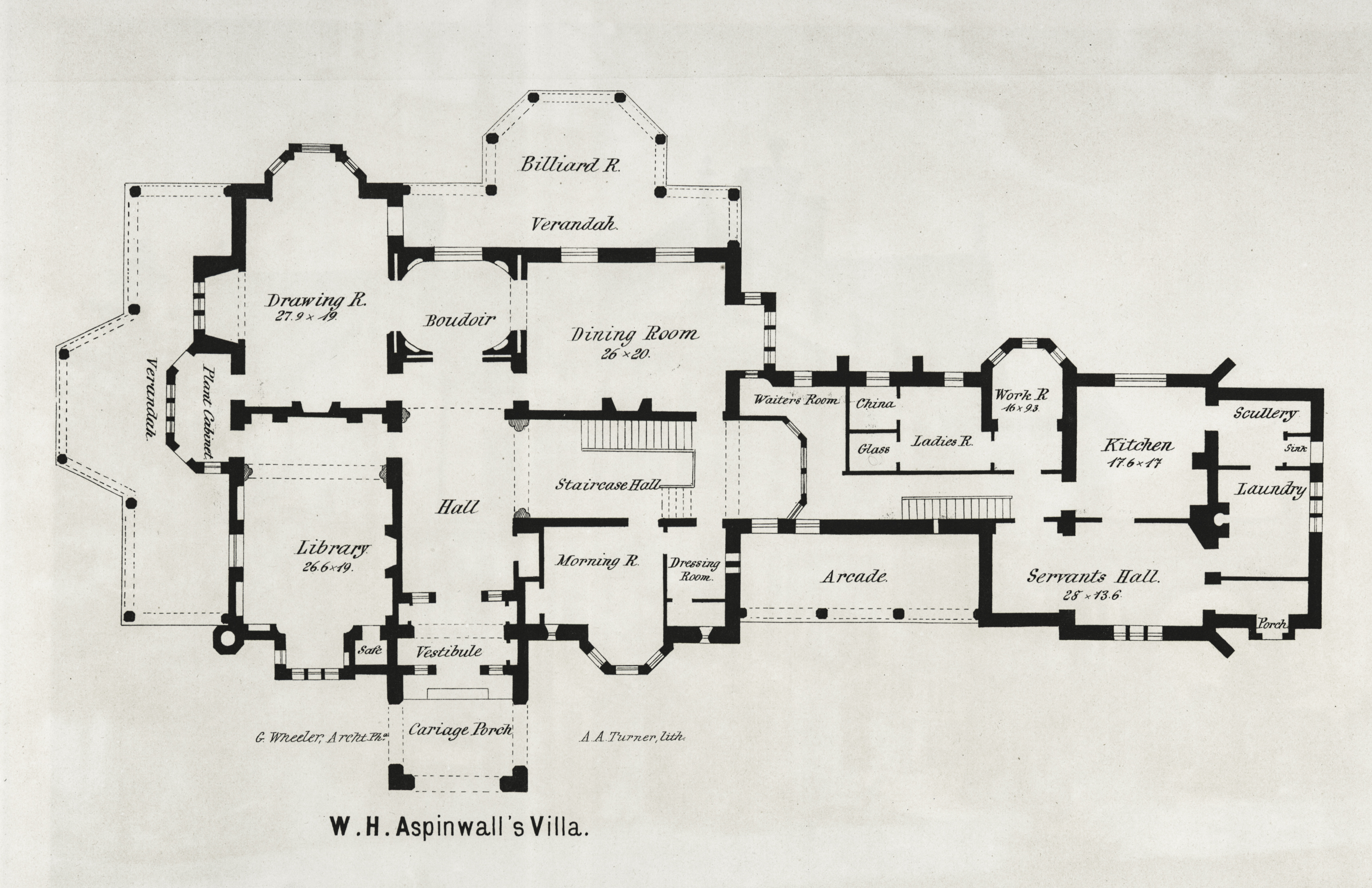 "Rockwood", when owned by William Henry Aspinwall, in 1860.